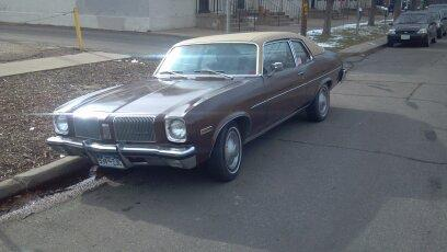 1973 Oldsmobile Omega Brougham